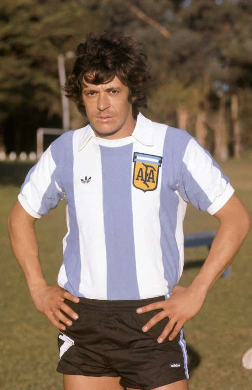 Rene Houseman during a photo session of the Argentina national team